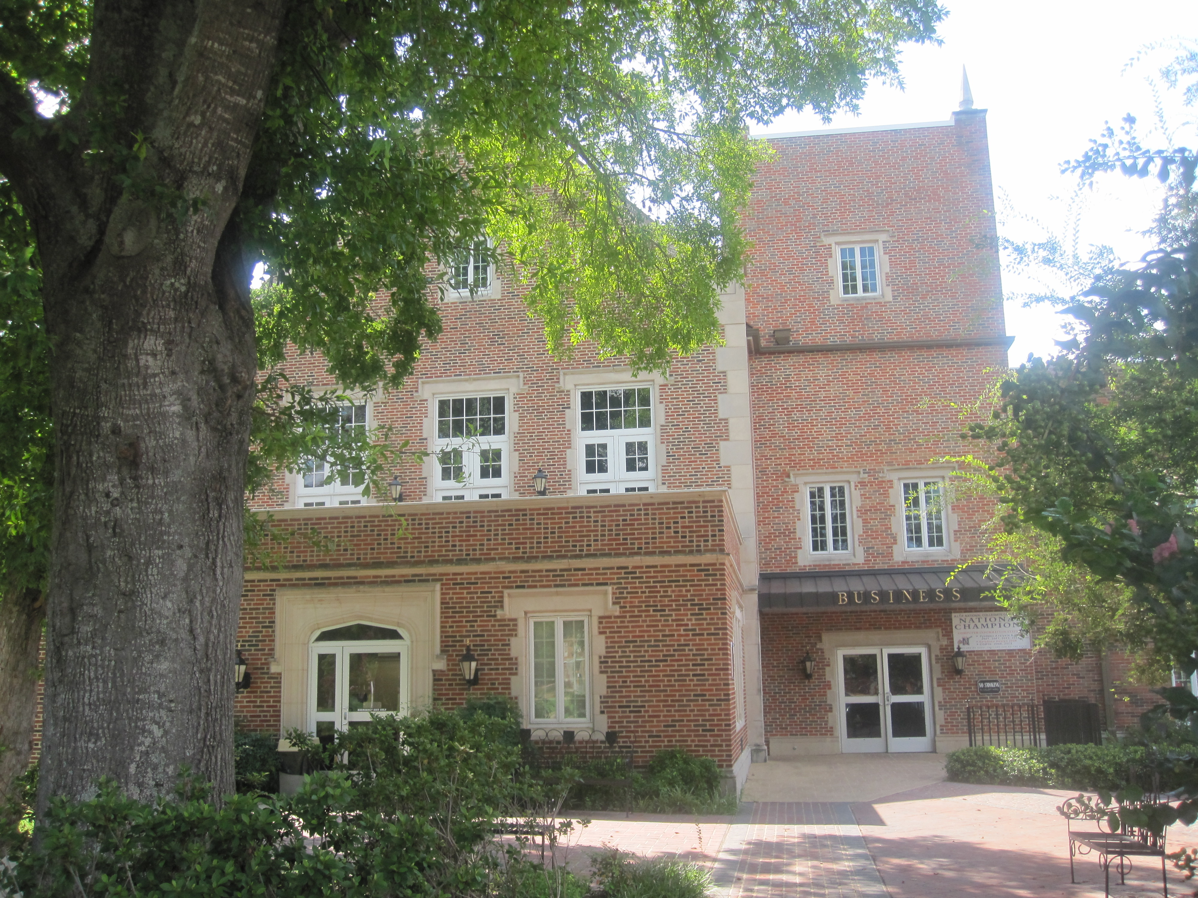 NSU Business Building, Natchitoches, LA IMG_2026.JPG